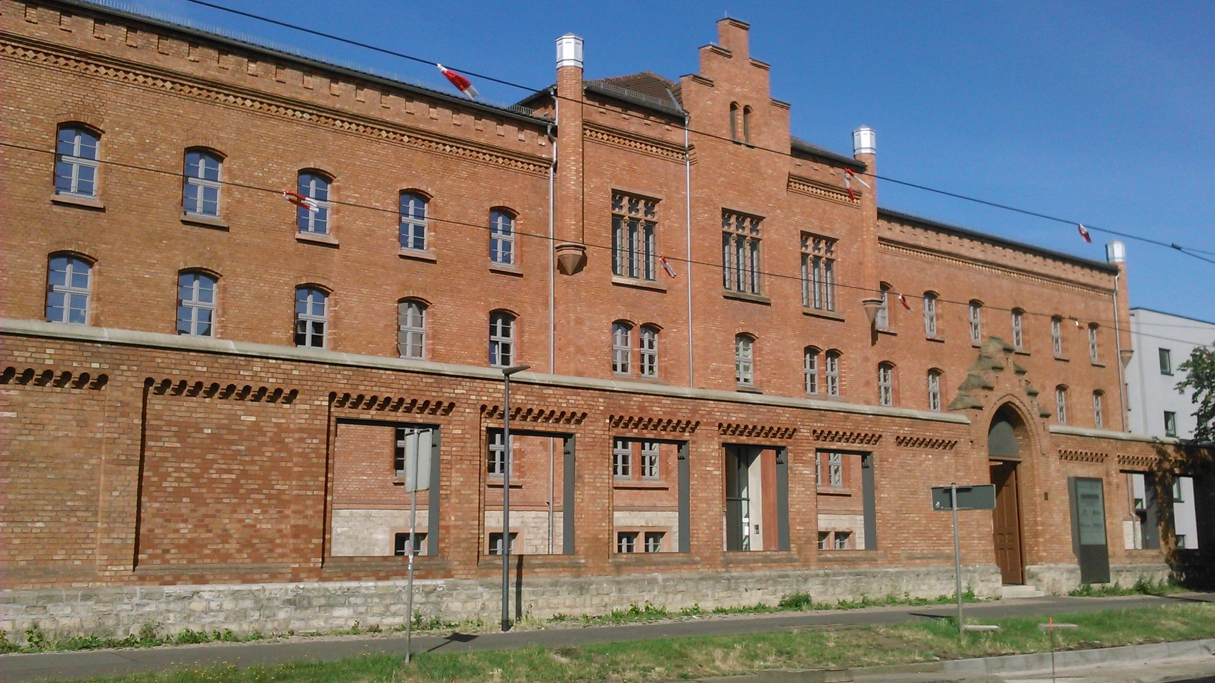 Former prison, now the Memorial and Education Centre Andreasstrasse (German: Gedenk- und Bildungsstätte Andreasstraße), in Erfurt. Served as a Stasi remand prison from 1952-1989.